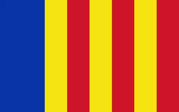 This is the flag of the Campanian city Salerno